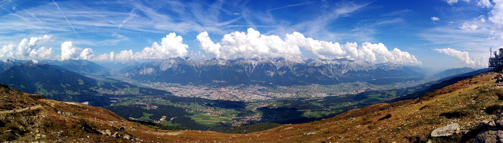 500px provided description: Innsbruck As Seen From Patscherkofel [#autumn ,#sky ,#landscape ,#city ,#mountains ,#clouds ,#cloudscape ,#fall ,#panorama ,#austria ,#alps ,#innsbruck ,#tyrol ,#patscherkofel ,#nordkette]